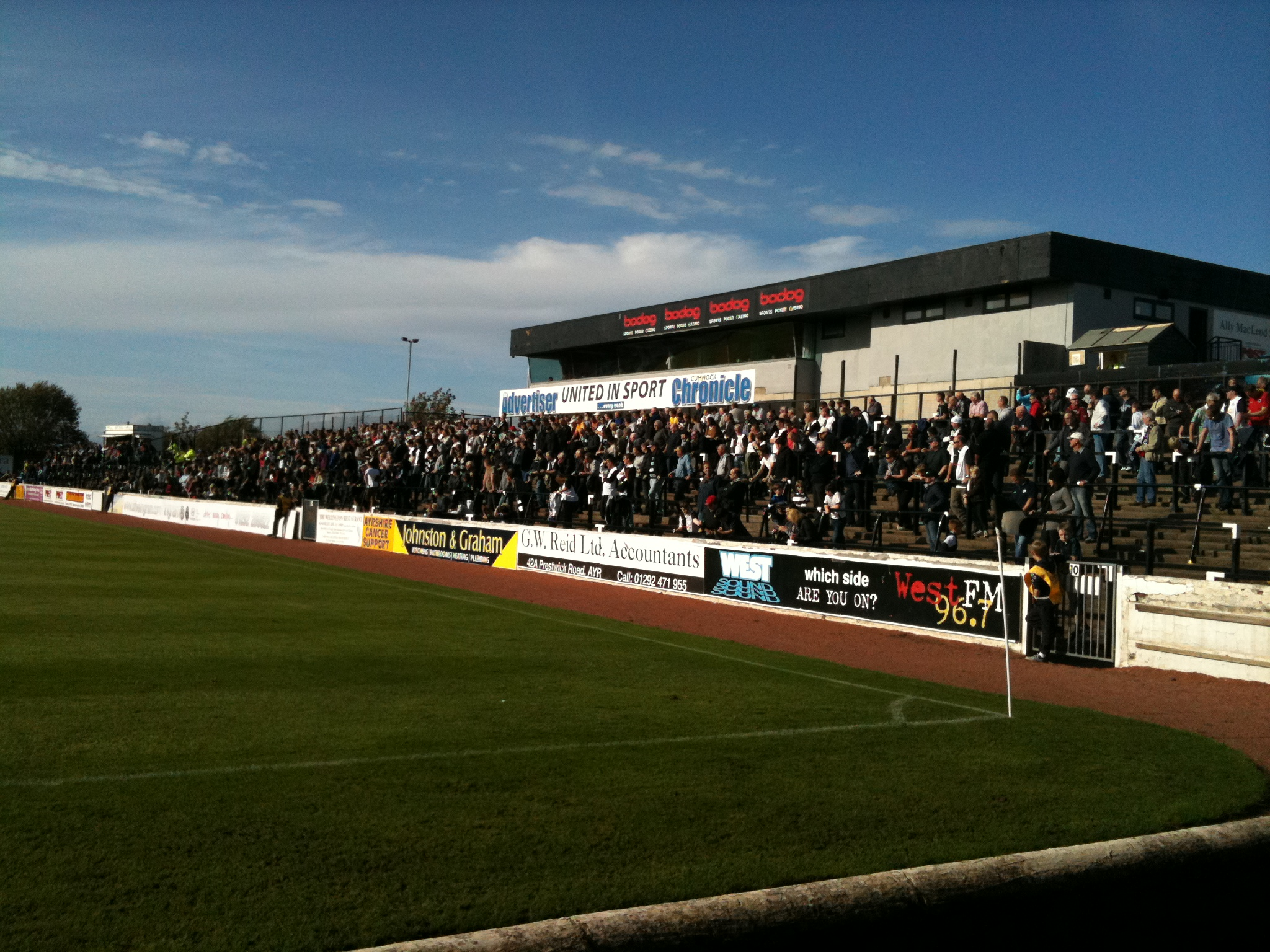 A photograph of the Hospitality suite at Somerset Park, home of Ayr United FC.